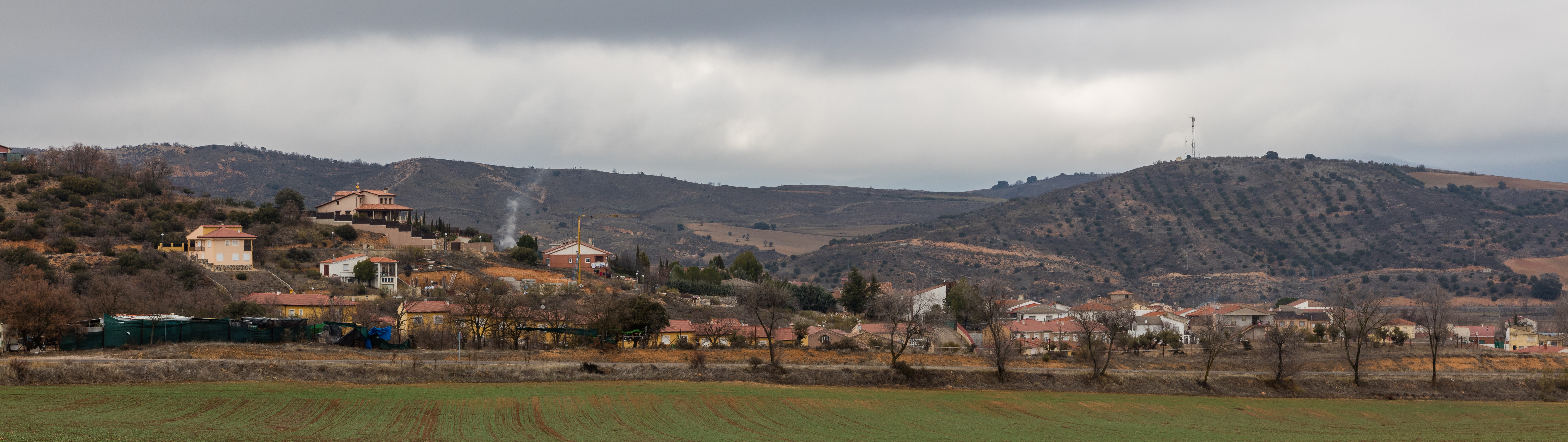 Espinosa de Henares, Guadalajara, Spain